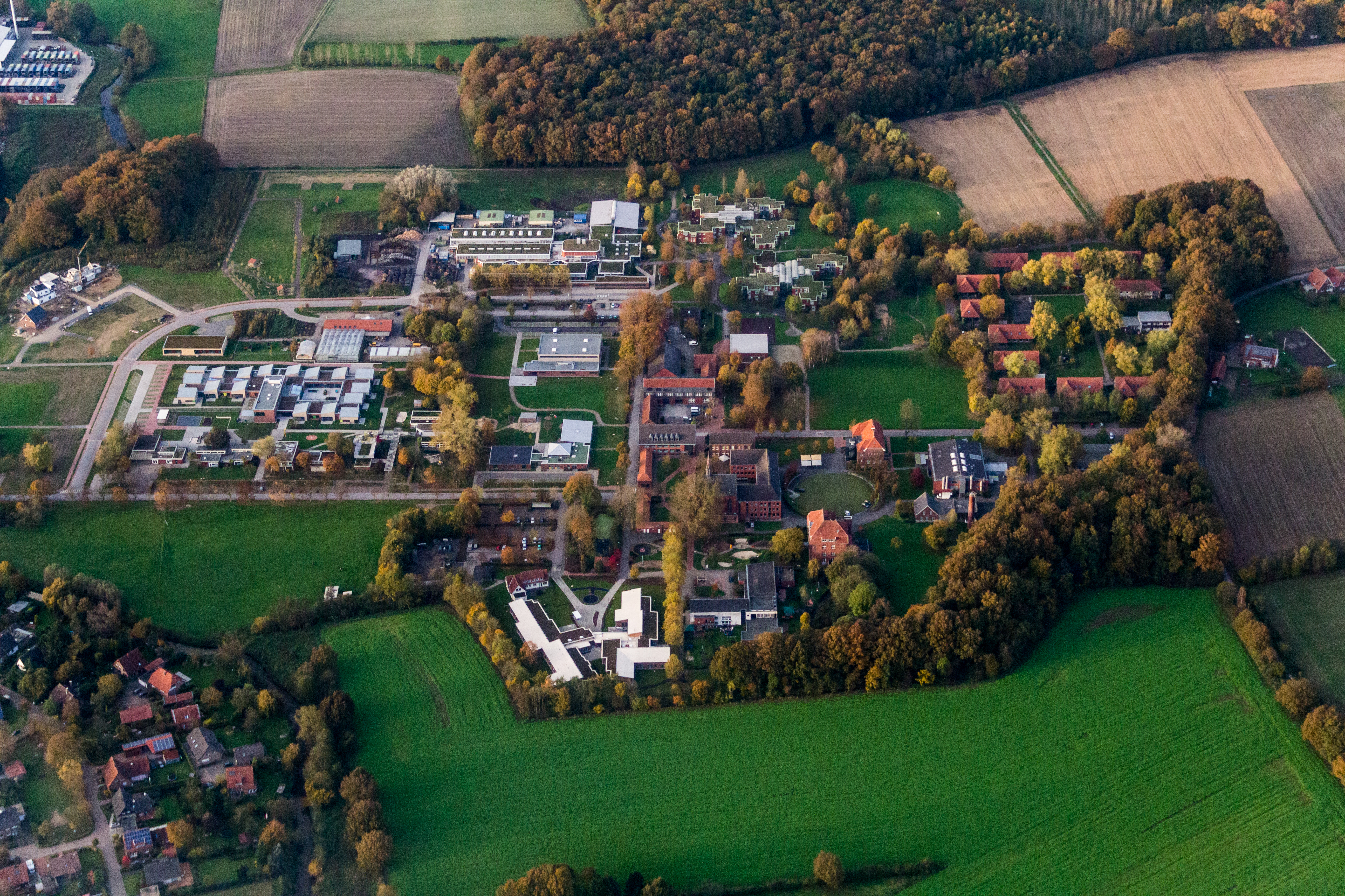 Hall Manor, Gescher, North Rhine-Westphalia, Germany